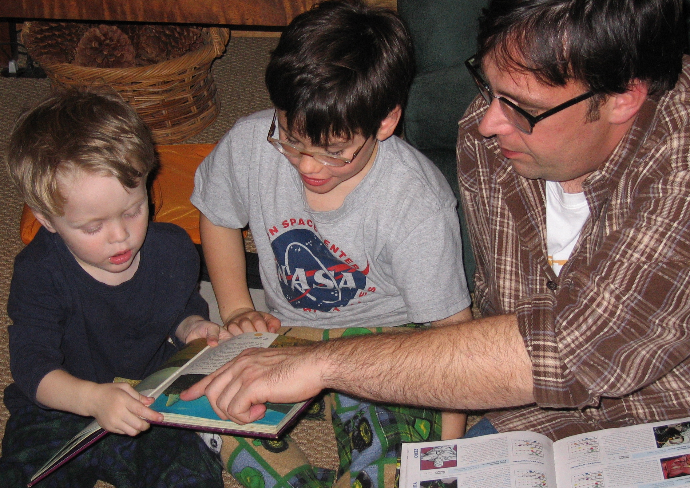 Family Reading Hour